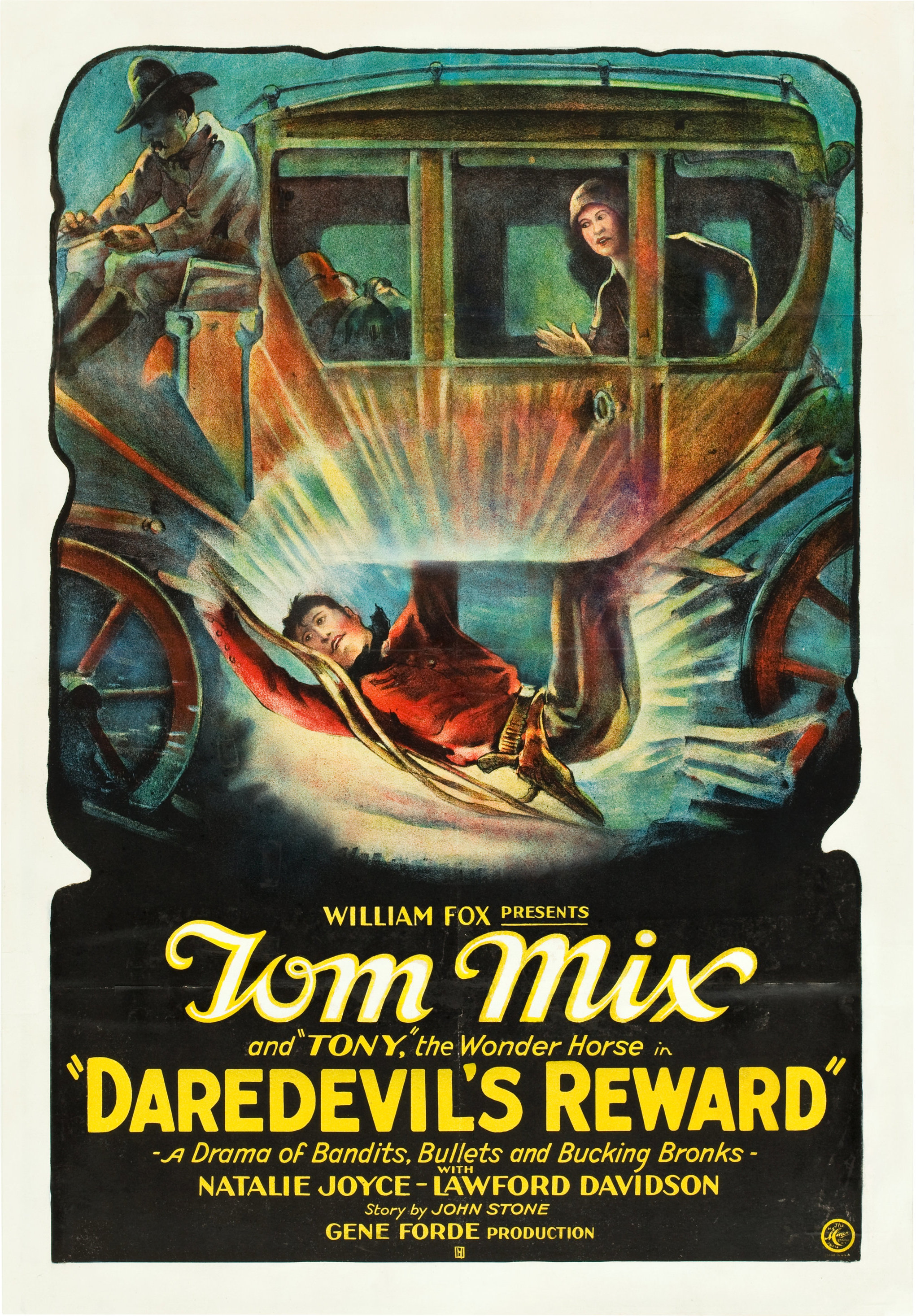 Poster for the 1928 film Daredevil's Reward. There are no copyright marks on the poster. At bottom right is Made in USA and the logo of the H. C. Miner Litho Co.-they printed the poster.